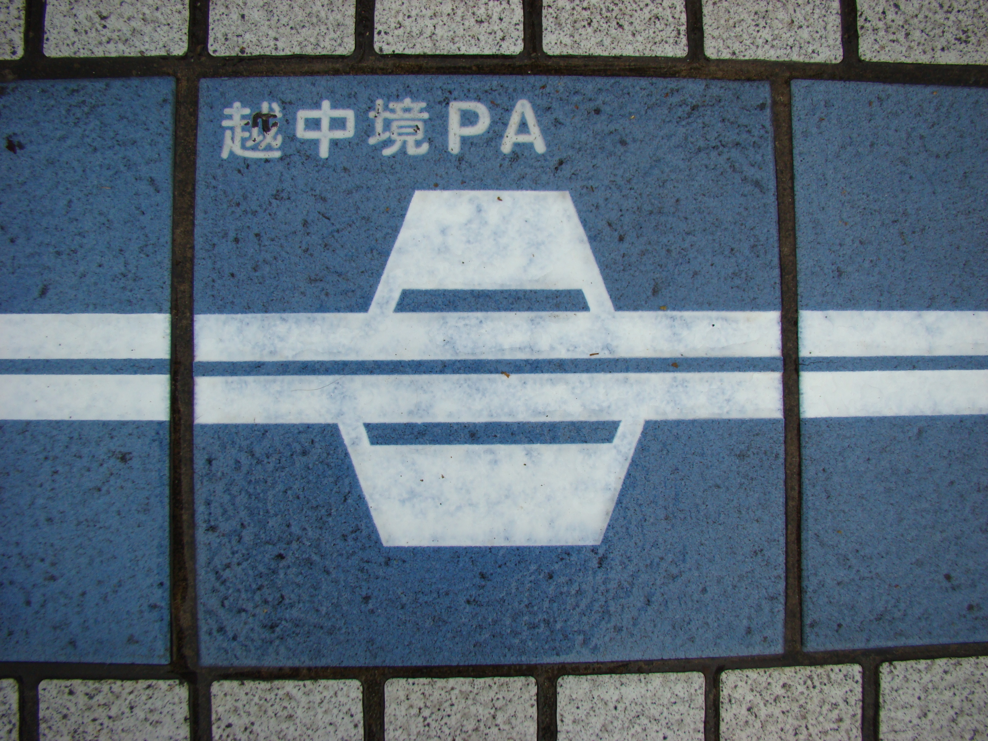 The tile which designed a shape of the Etchu-Sakai Parking Area（Hokuriku Expressway）（There is this tile in Hokuriku Expressway Nadachi-Tanihama Service Area.）. Place - Chayagahara,Joetsu City,Niigata Prefecture,Japan Date - August 9, 2009 Format - JPEG, 3264x2448pixel, 24bit colors. Photographer - NALA Wiki (talk)